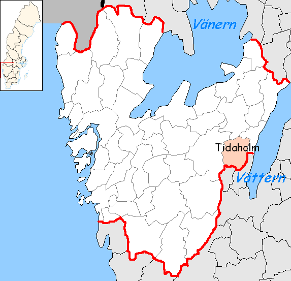 Tidaholm Municipality in Västra Götaland County Designed by me. Mere outlines are a PD source from